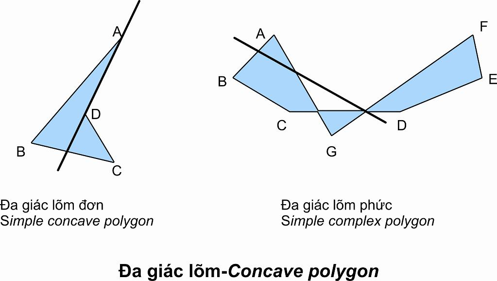 Đa_giác_lõm-Concave_polygon